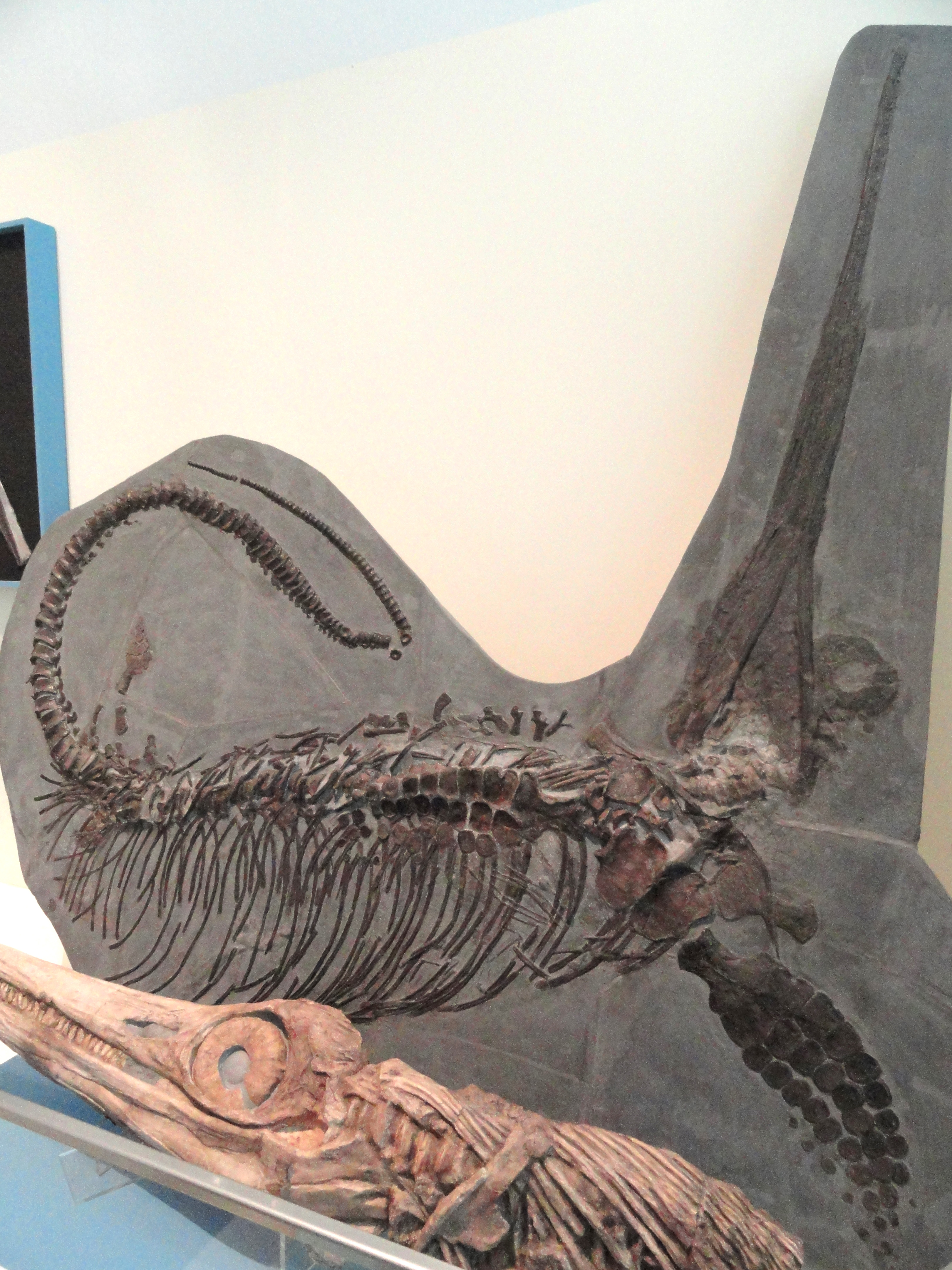 Exhibit in the Royal Ontario Museum, Toronto, Ontario, Canada. This exhibit is old enough so that it is in the public domain, and photography was permitted in the museum. I took this photograph and release it into the public domain.